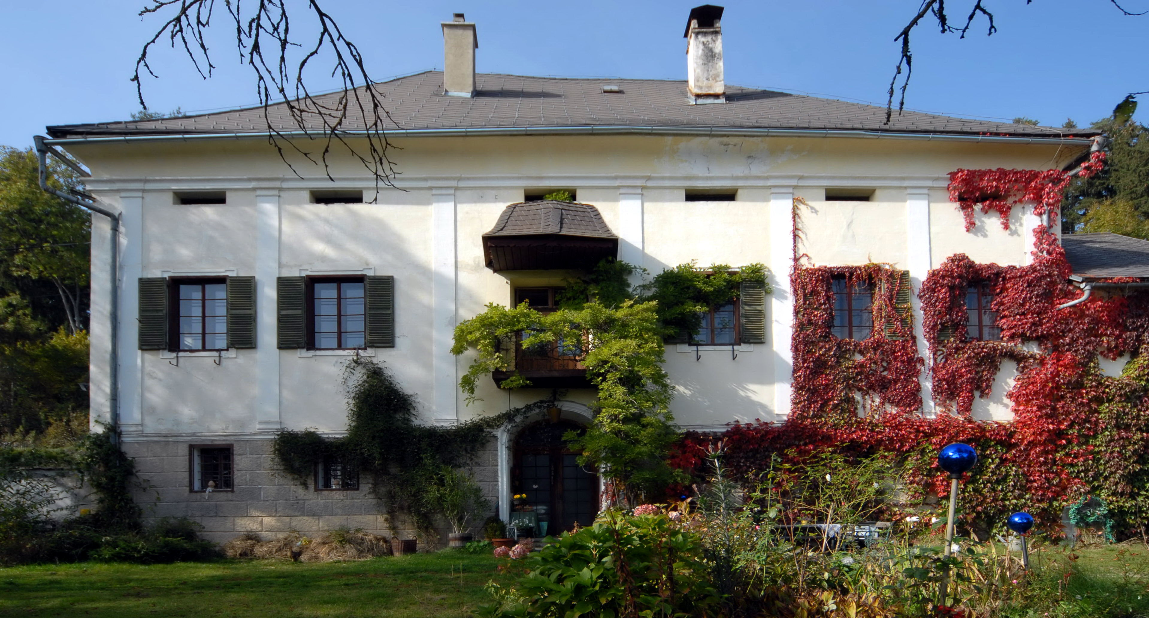 Mansion Pörlinghof in Pörlinghof, municipality Frauenstein, district Sankt Veit, Carinthia, Austria, EU